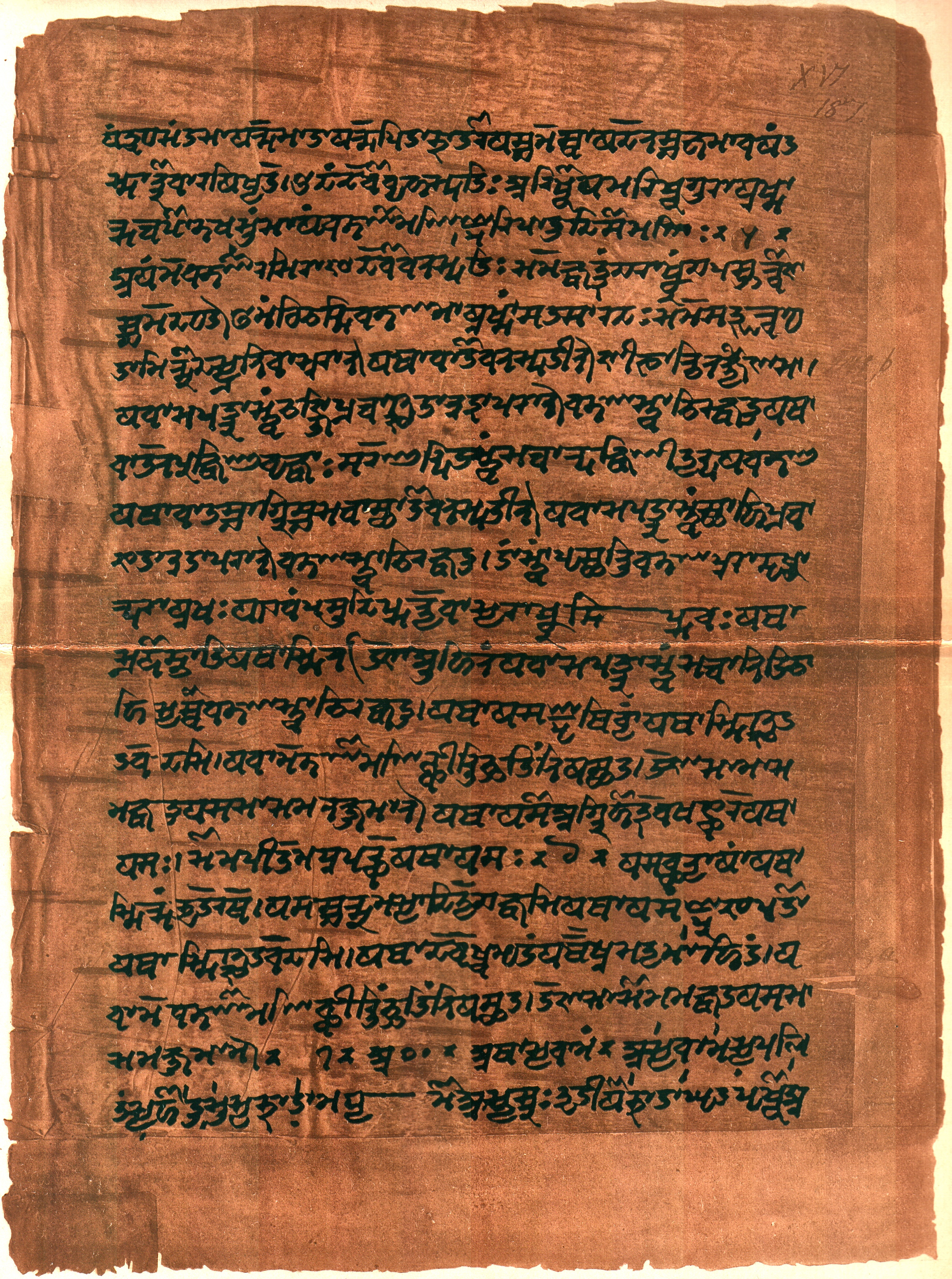 Image of Codex Cashmiriensis folio 187a from Atharva-Veda Saṁhitā second half, by William Dwight Whitney and Charles Rockwell Lanman.